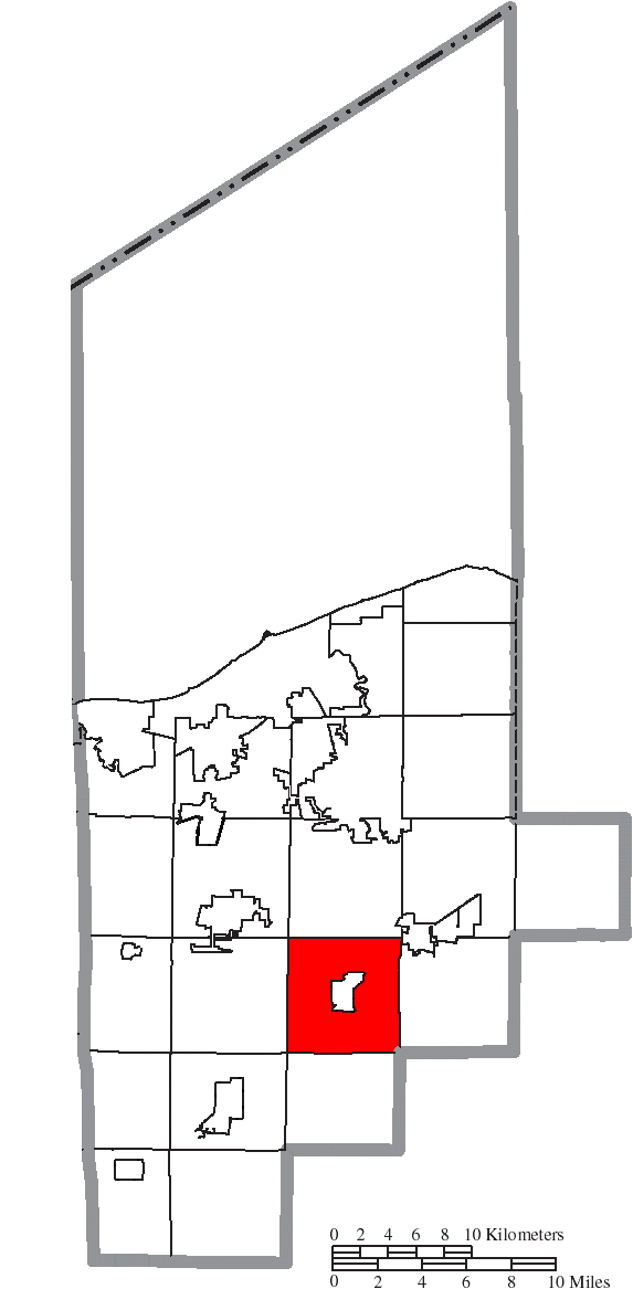 Map of the municipal and township boundaries of Lorain County, Ohio, United States, as of the 2000 census, with the location of LaGrange Township highlighted. Township borders are shown only in unincorporated areas in order to differentiate incorporated and unincorporated areas more clearly.